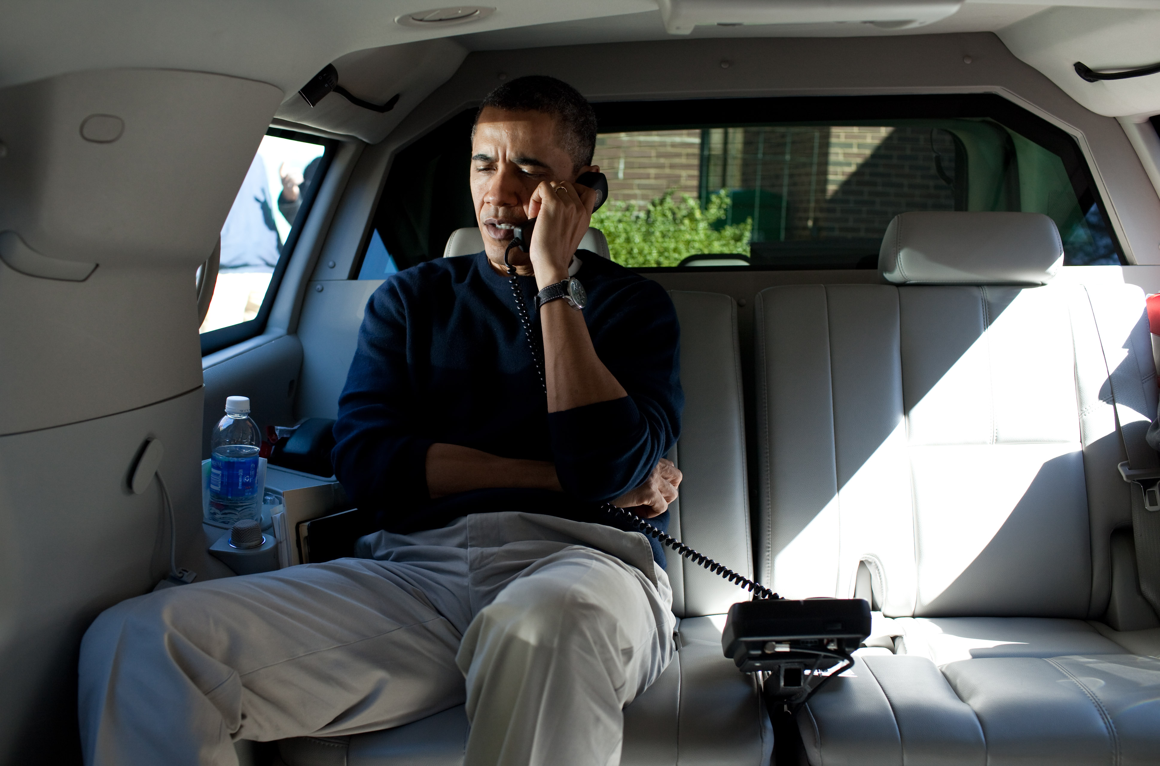 President Barack Obama talks on the phone with Afghanistan President Hamid Karzai from his vehicle outside the Jane E. Lawton Community Center in Chevy Chase, Maryland, Sunday, March 11, 2012. The President called to express his shock and sadness over the reported killing of Afghan civilians. March 11, 2012.